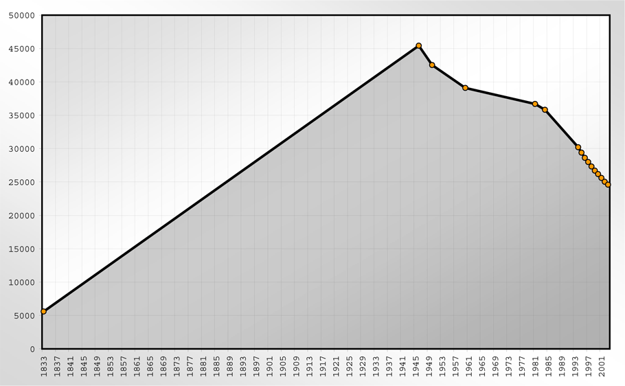 This image shows the population statistics of Greiz (Germany).